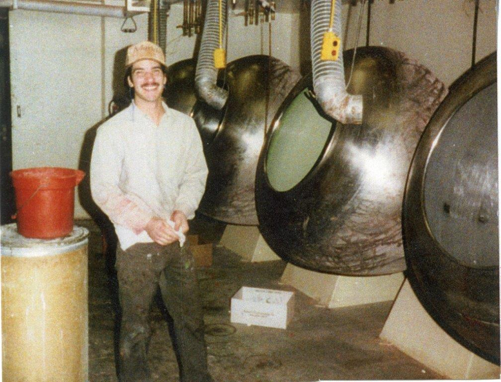 Young Troy van Dam